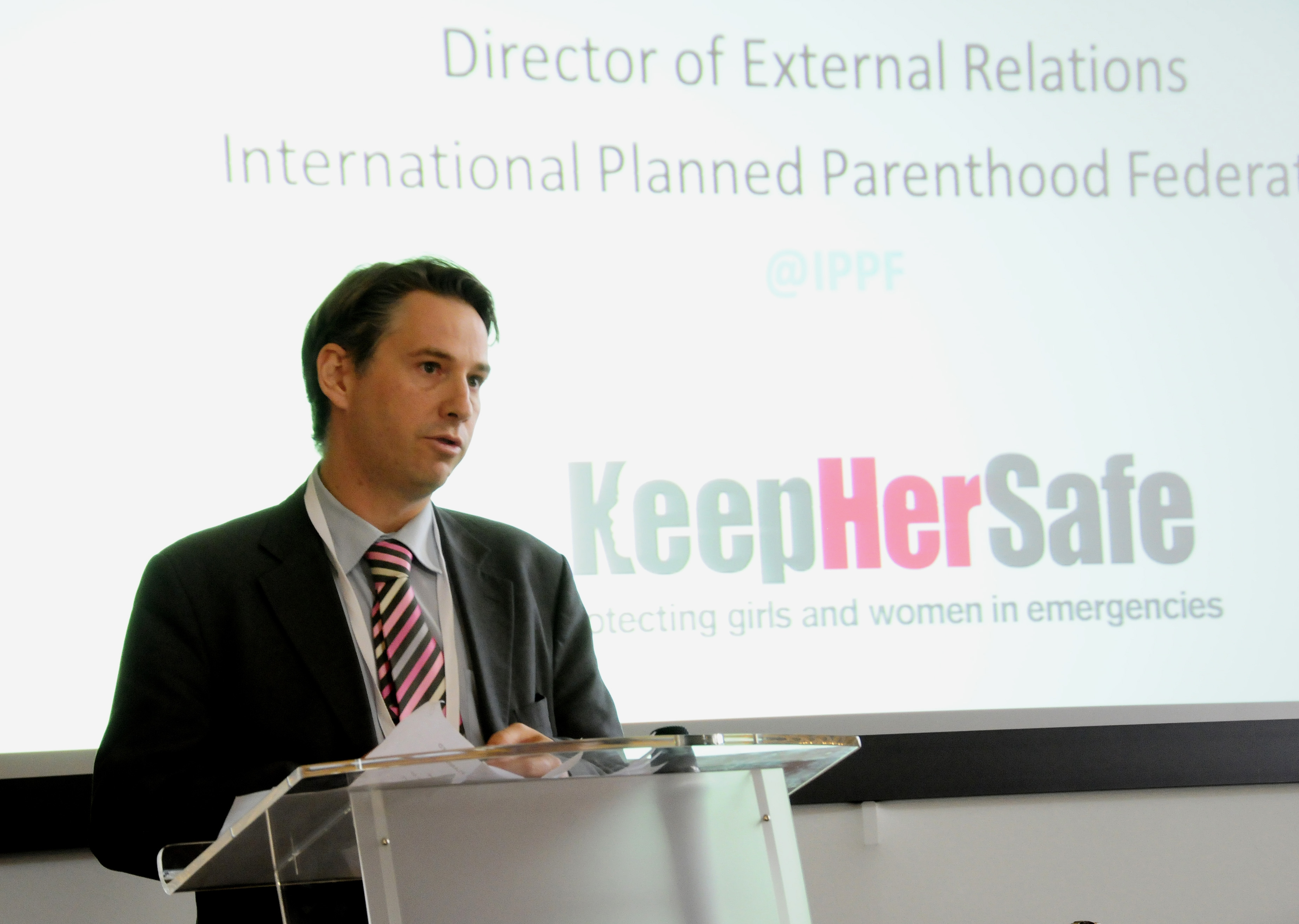 Owain James, Director of External Relations at International Planned Parenthood Federation provides a voice from an NGO. Leading humanitarian agencies met in the UK today to endorse a global commitment that will prioritise the protection of girls and women from violence and sexual exploitation in emergency situations. International Development Secretary Justine Greening and Sweden’s International Development Minister Hillevi Engström co-chaired a high-level event in London for governments, UN heads, international NGOs and civil society organisations to agree a fundamental new approach to protecting girls and women in emergency situations, both man-made and natural disasters. Read the news story: Pictures: Sheena Ariyapala/DFID